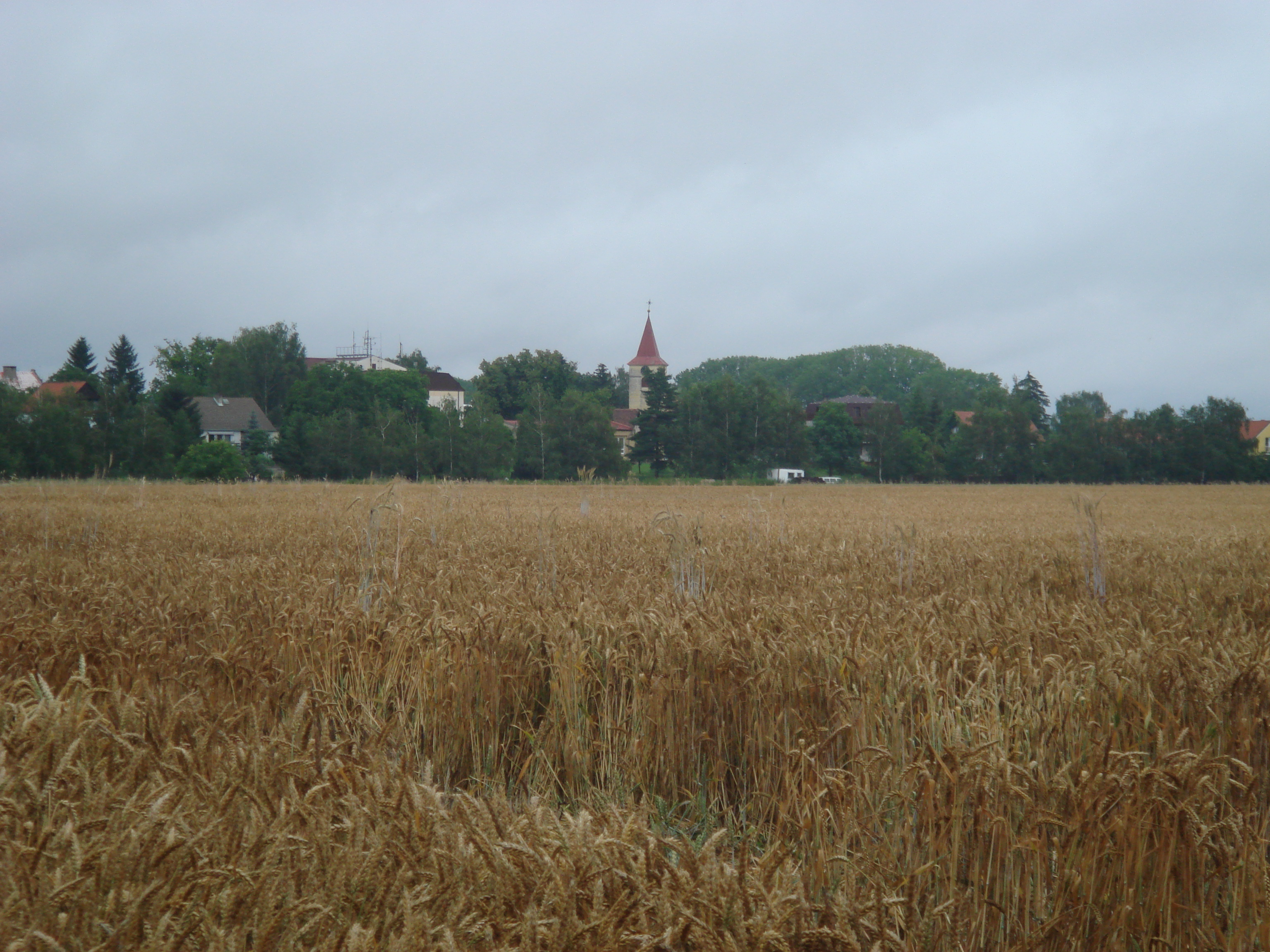 Libice nad Cidlinou (Central Bohemian Region, Czech Republic).